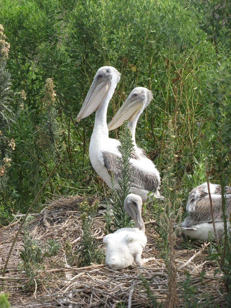 Alabama Young Pelicans by Catherine Hibbard, USFWS